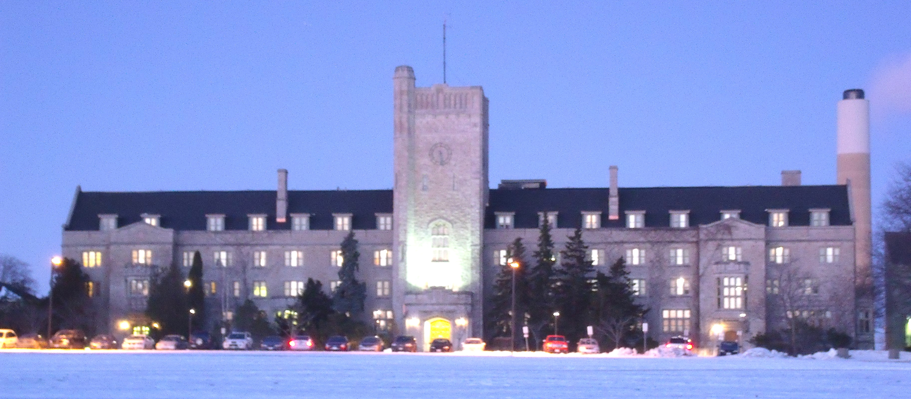 Johnston Hall at the University of Guelph